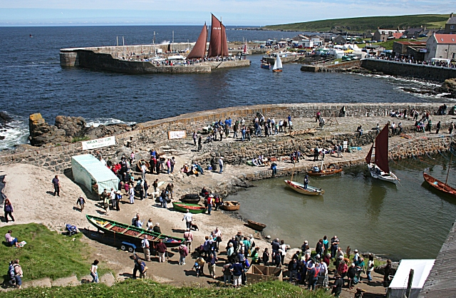 Scottish Traditional Boat Festival The old harbour wall is in the foreground, with the new harbour further away.